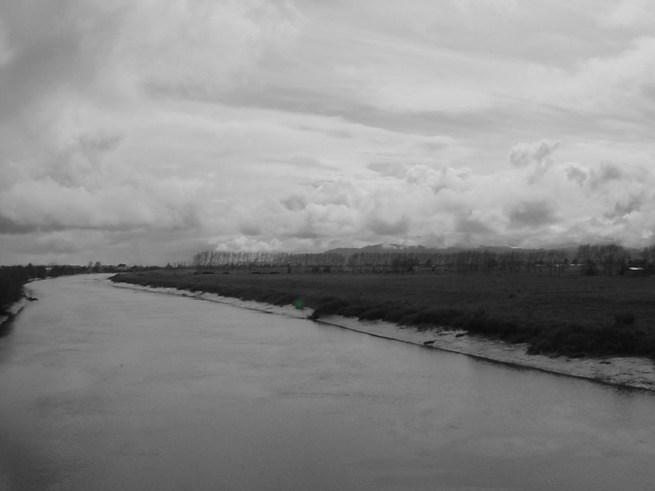 Piako river in New Zealand, Image taken of the piako river from the bridge